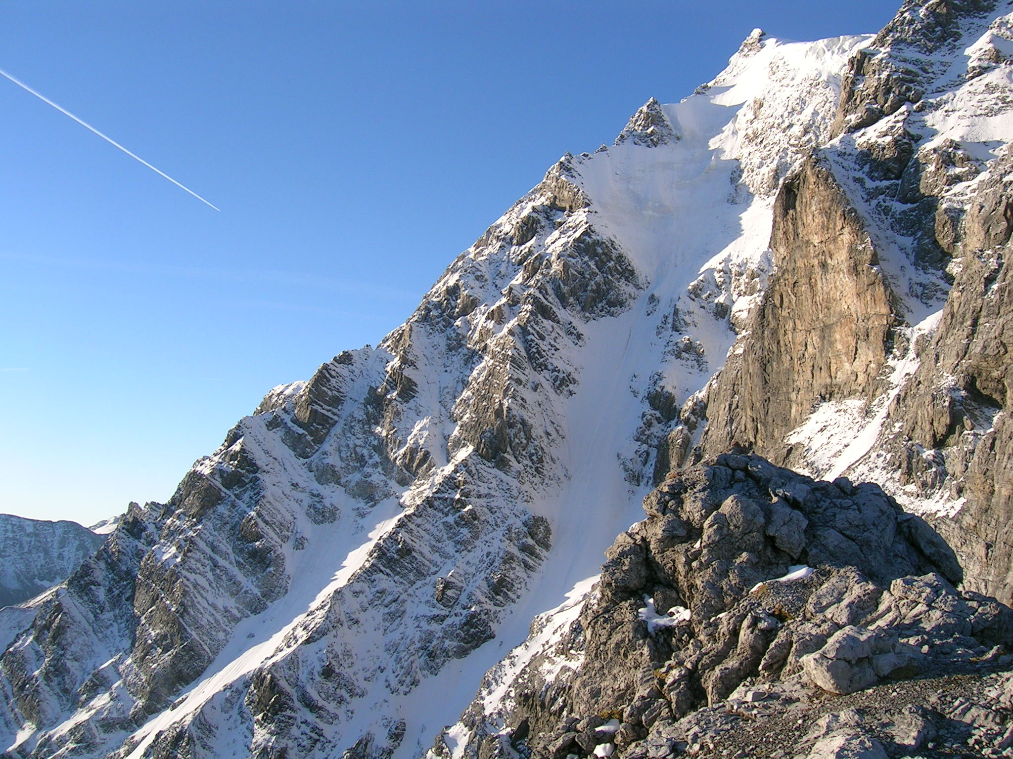 Ortler northface from ascent via Payer refuge and Tabaretta ridge (standard route)